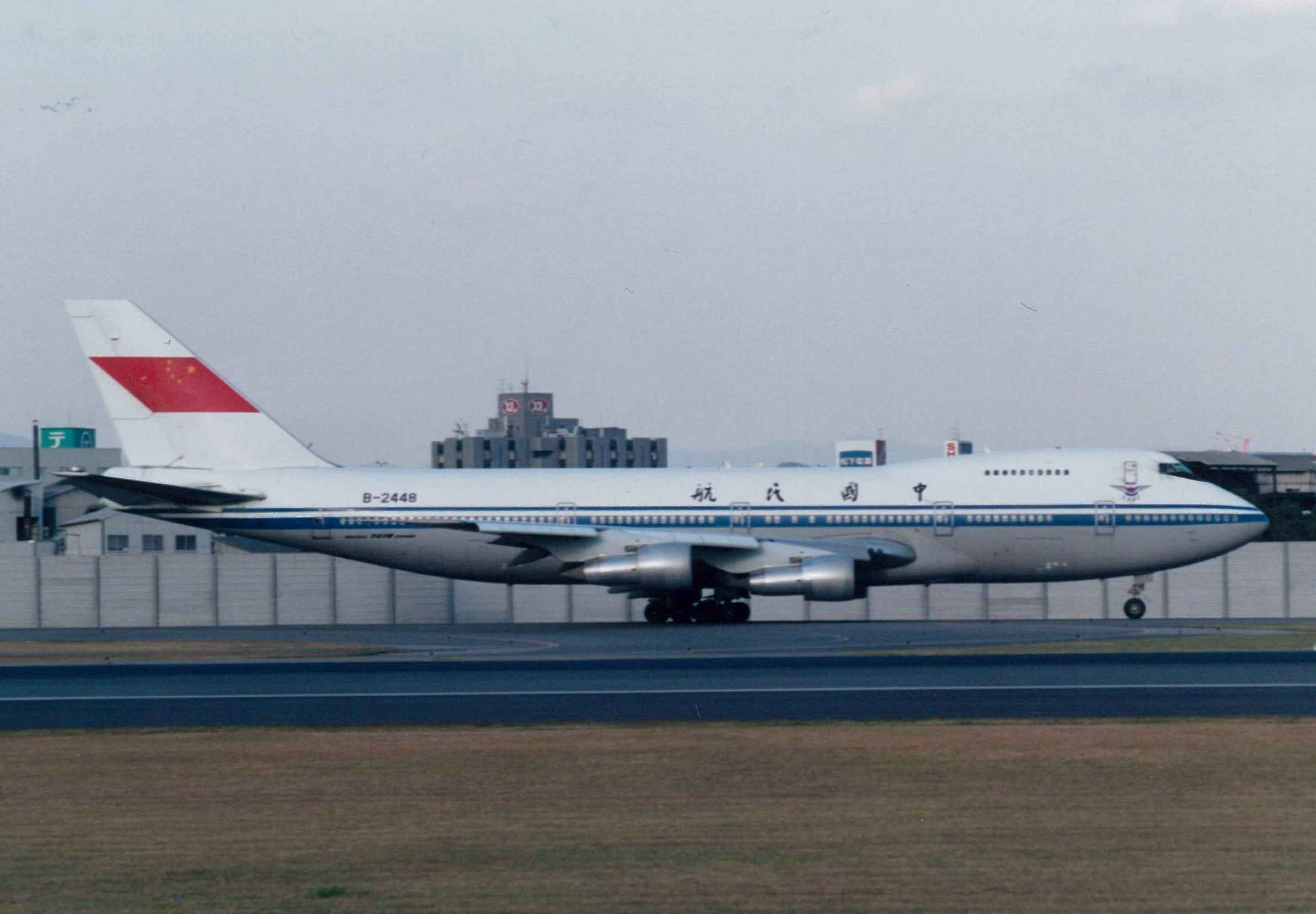 It is Airliners which it photographed in Itami, Osaka Airport.